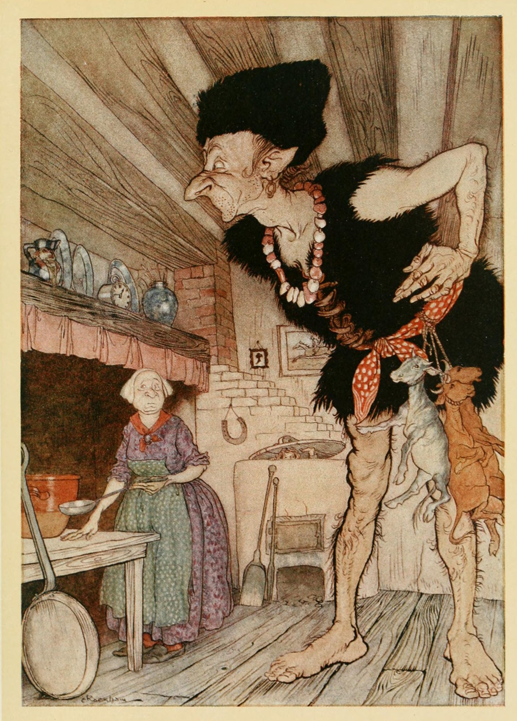 "”Fee-fi-fo-fum, I smell the blood of an Englishman.”" From English Fairy Tales (1918) by Flora Annie Steel, illustrated by Arthur Rackham (link to page / title.)